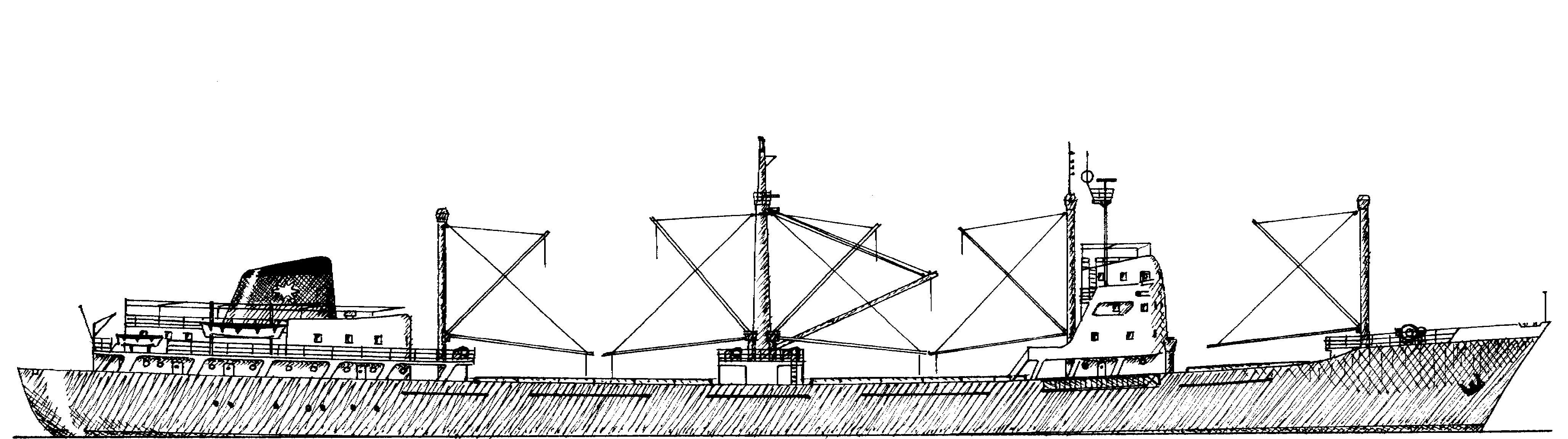 MV AQUILA built 1959